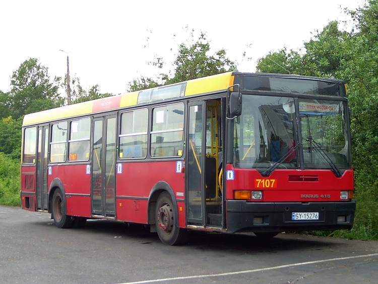 Ikarus 415.14A bus (#7107, reg. SY 15276) in Poland. Built 1994, PKM Bytom operator.